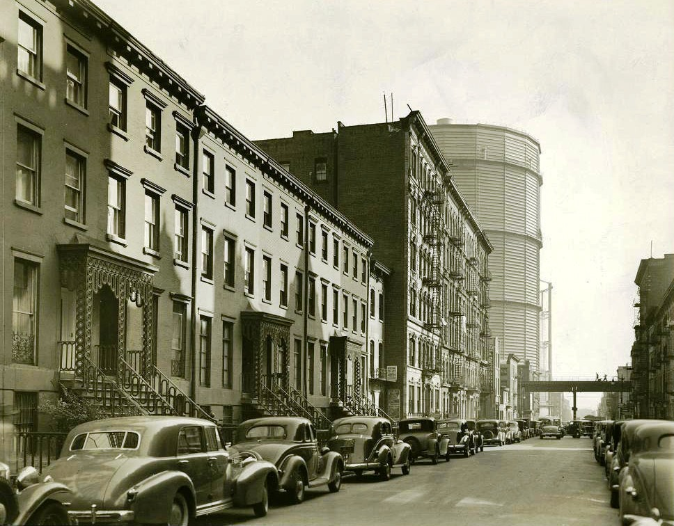 East 20th Street between 2nd Avenue and 1st Avenue, looking east towards 1st Avenue, in Manhattan, New York City in 1938